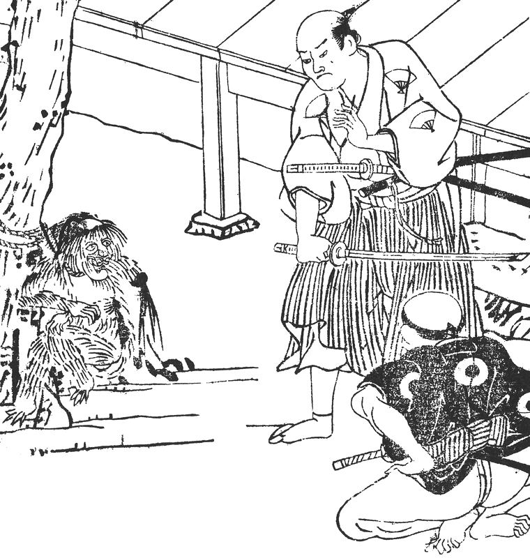 Kappa (河童, A famous water monster with a water-filled head and a love of cucumbers) from the Seiban Kaidan Jikki (西播怪談実記)